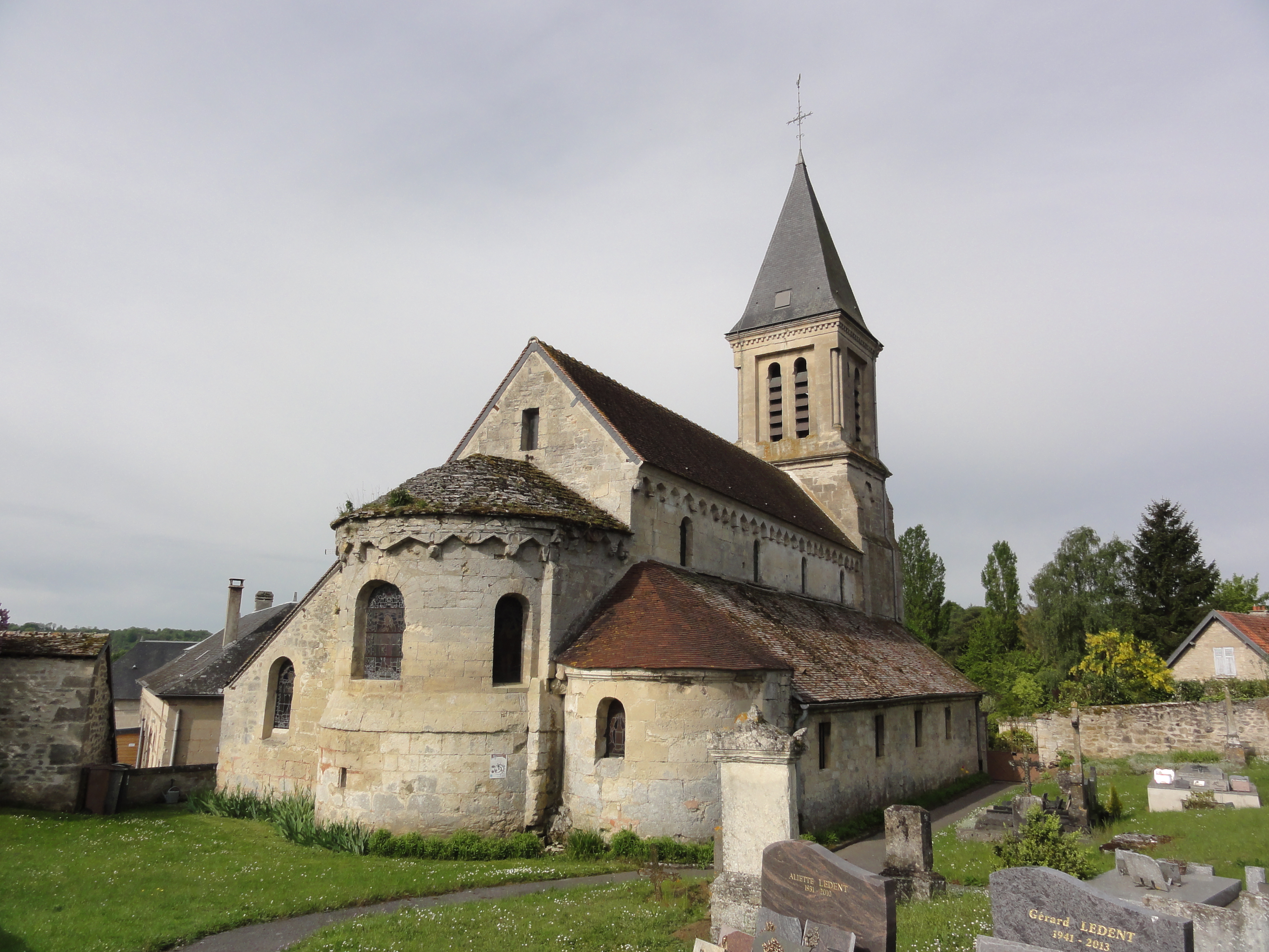 Montchâlons (Aisne) église Saint-Pierre